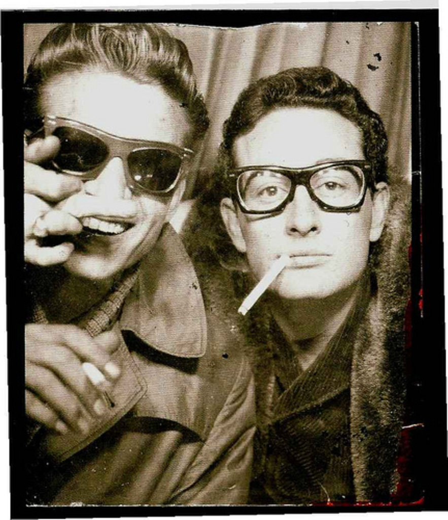 Buddy Holly and Waylon Jennings photographed in a photo-booth in Central Station, in New York City.